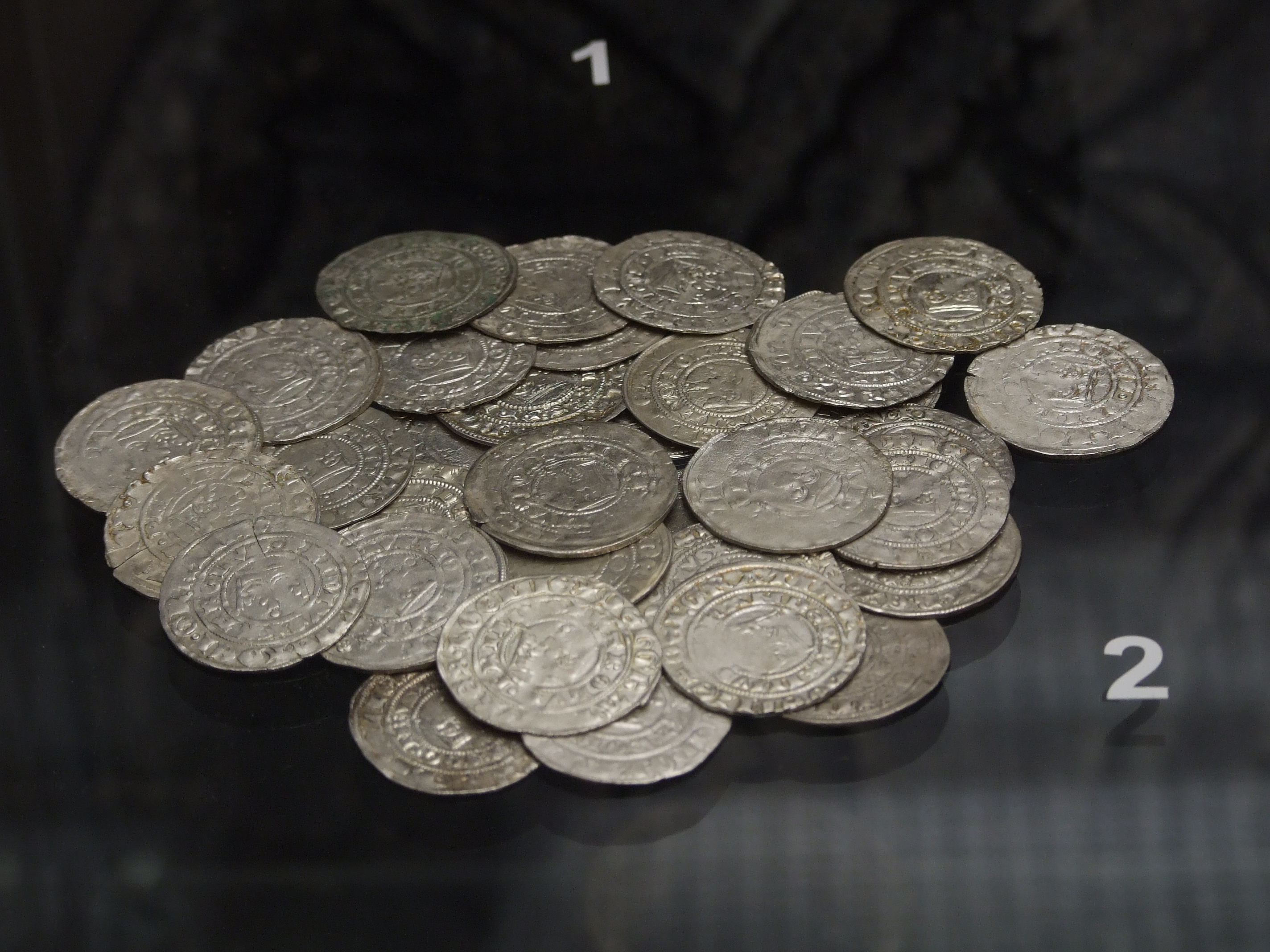 Exhibition item, Museum of Eastern Bohemia in Hradec Králové, Czech Republic